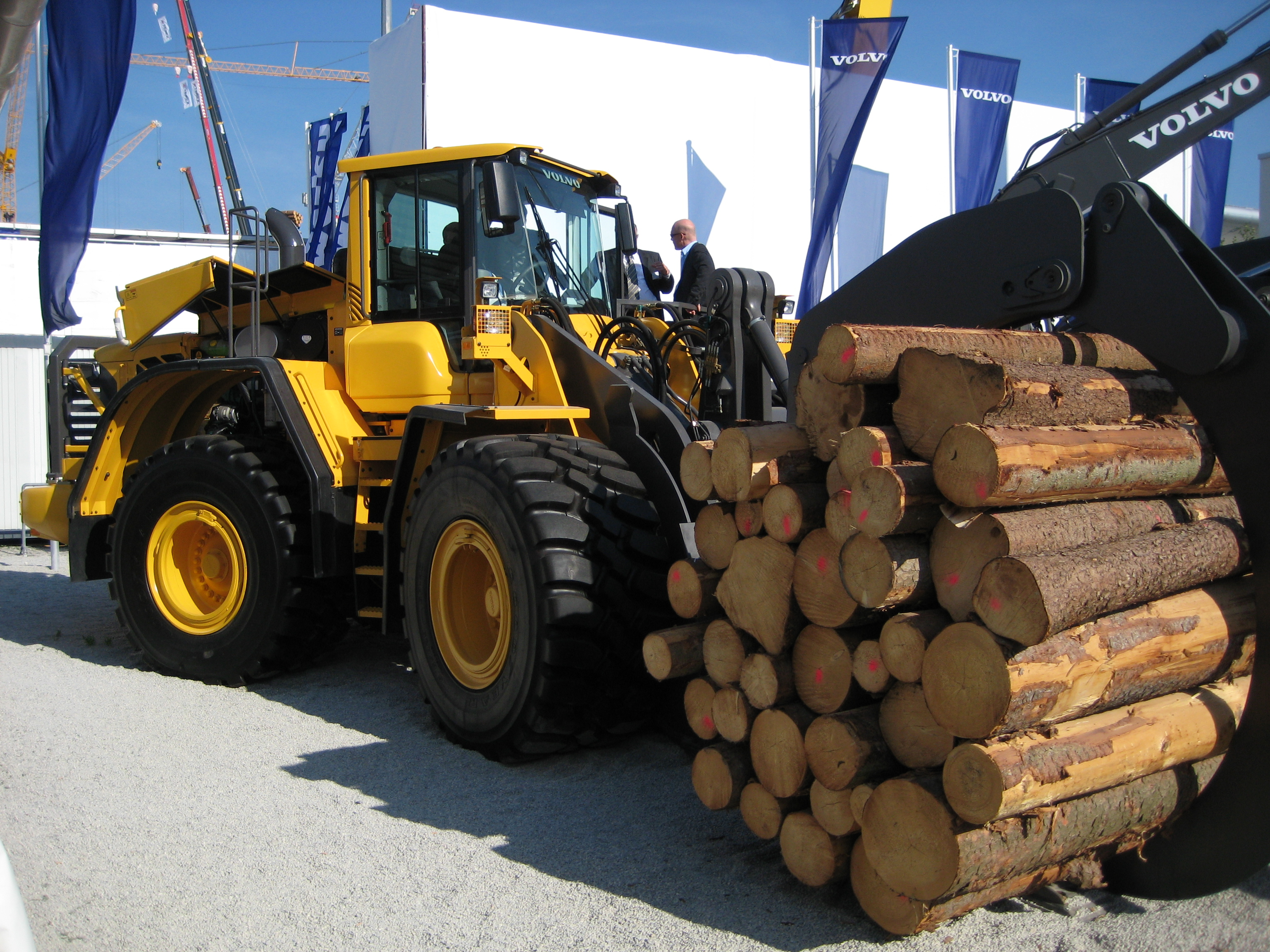 BAUMA 2007, Loader, Volvo